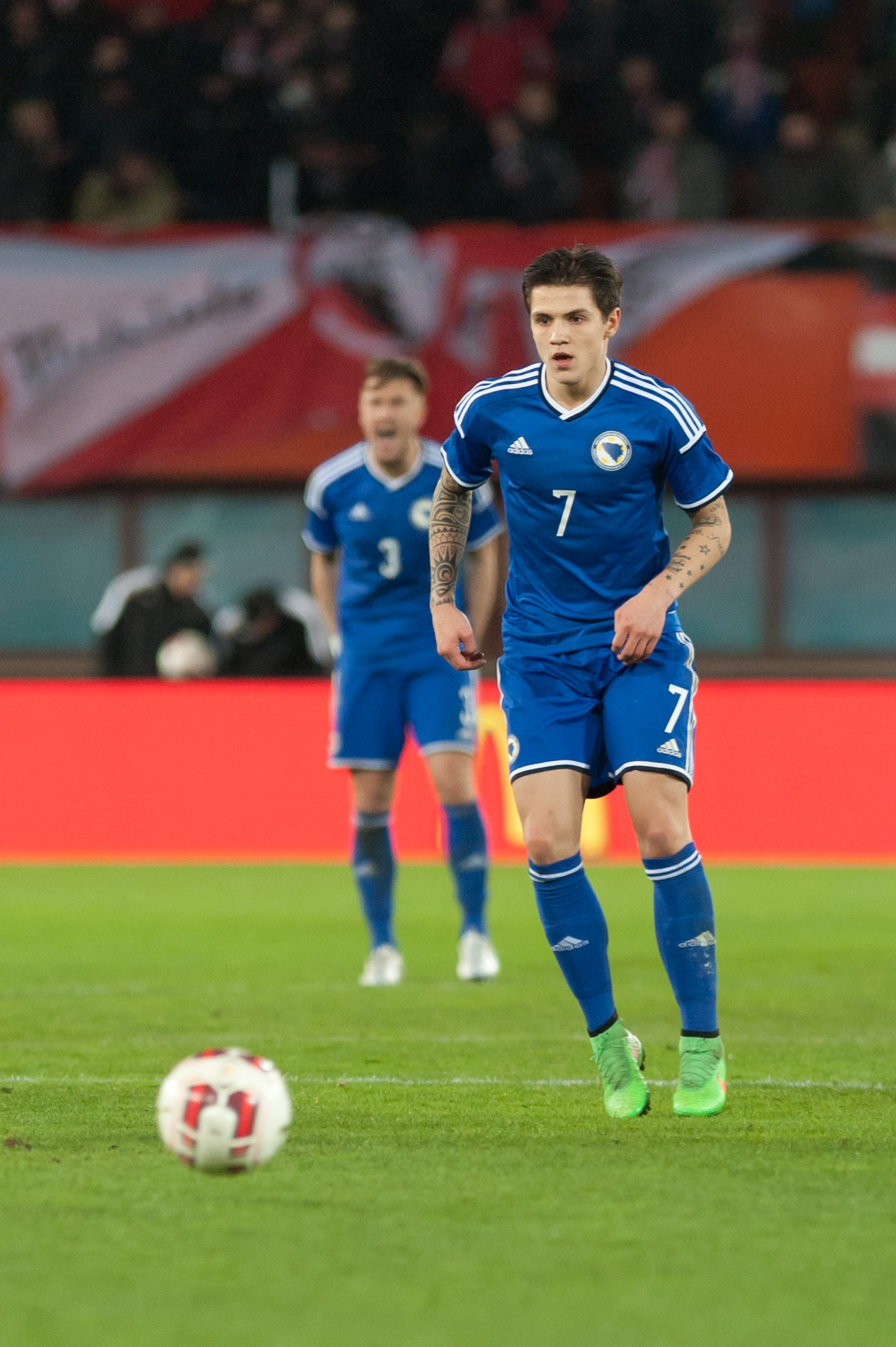 International friendly Austria vs. Bosnia and Herzegovina, 2015-03-31, Vienna